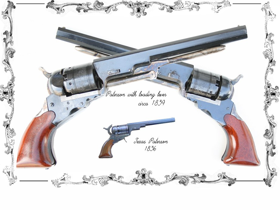 picture by Mike Cumpston